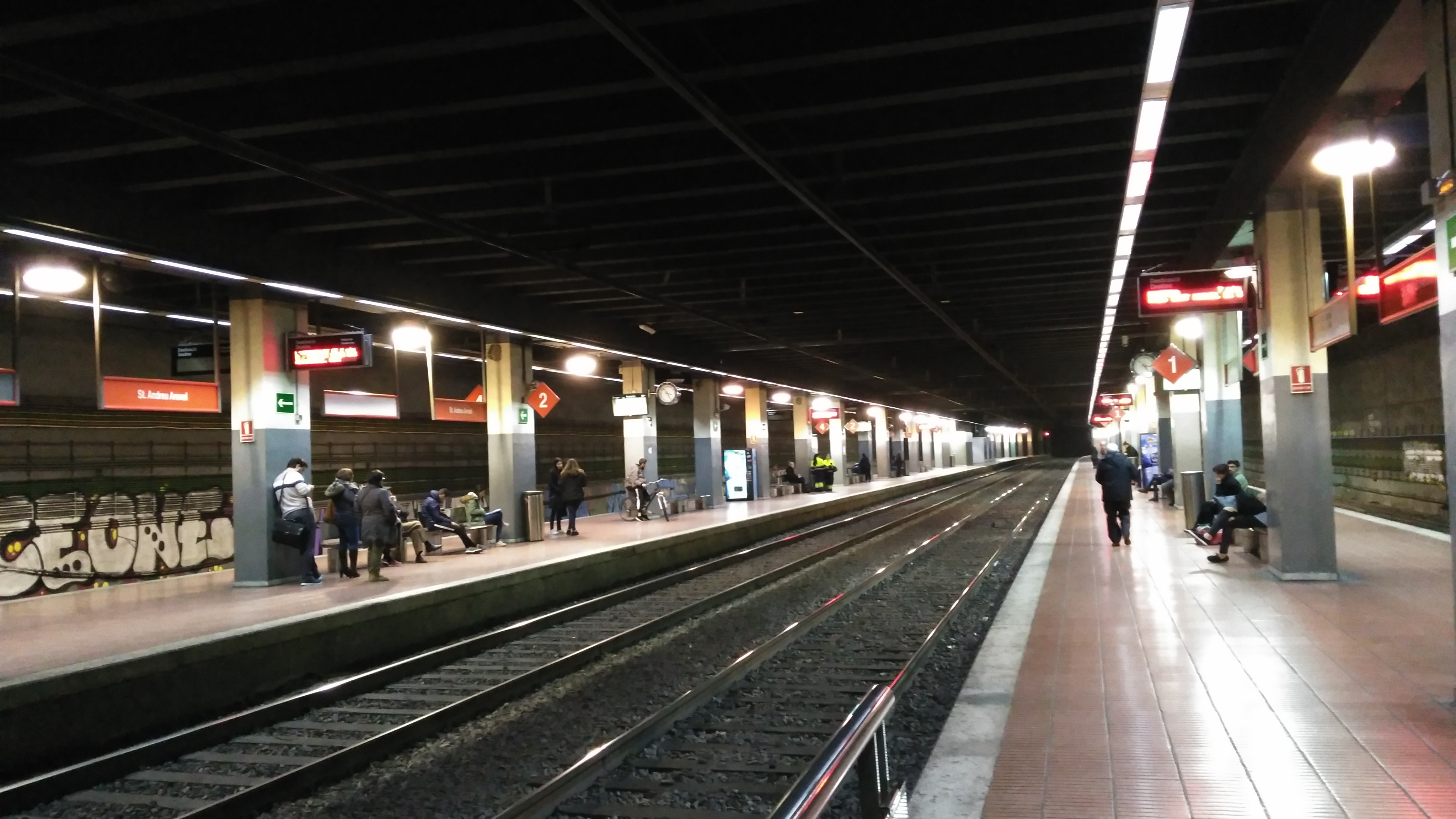 Sant Andreu Arenal station platforms (Barcelona).